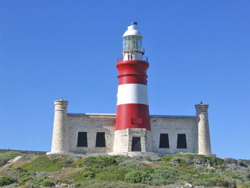 The lighthouse at Cape Agulhas, South Africa, the most southern tip of Africa.